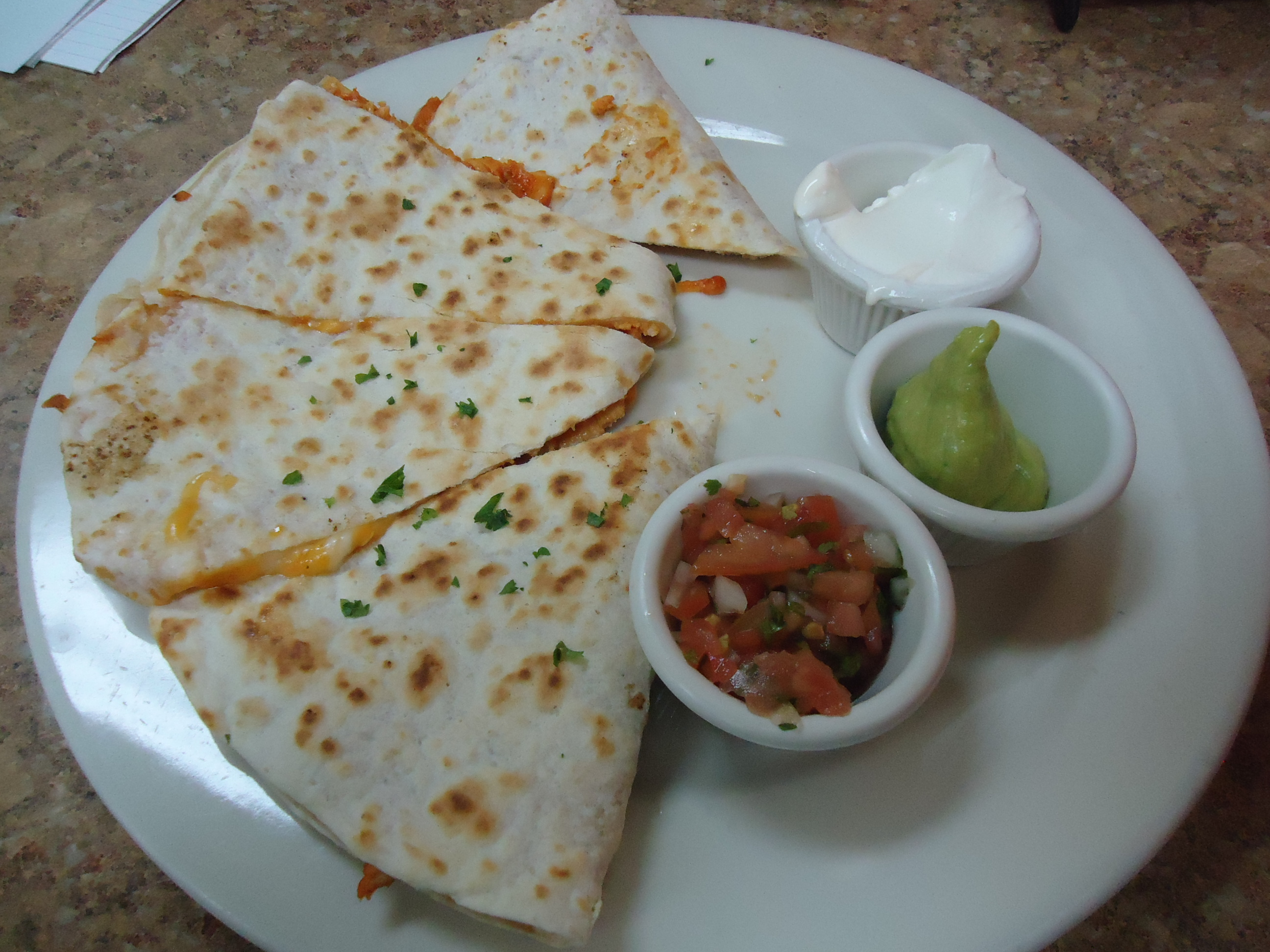 Chicken quesadilla dish served at the Latin Bistro restaurant in Summit, NJ, with guacamole, sour cream, salsa.